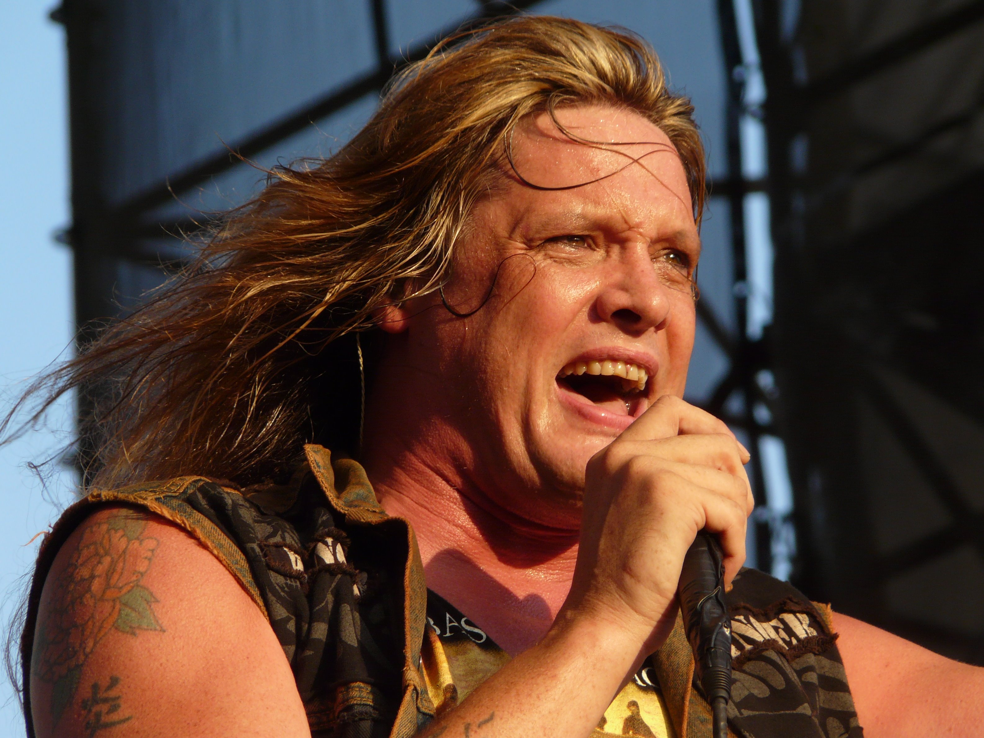 Sebastian Bach at the Moondance Jam on July 11, 2008 in Walker, Minnesota PHOTO BY MATT BECKER